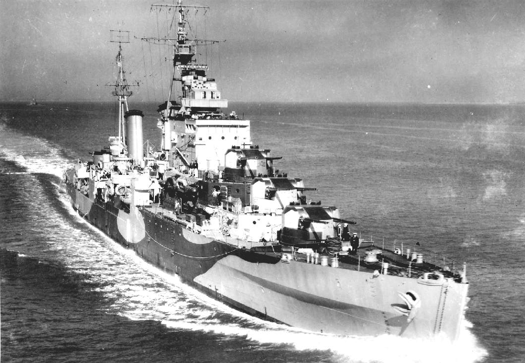 HMS Argonaut in her War (Dazzle) Colours, Date Unknown probably 1943 just after repairs at Philadelphia.